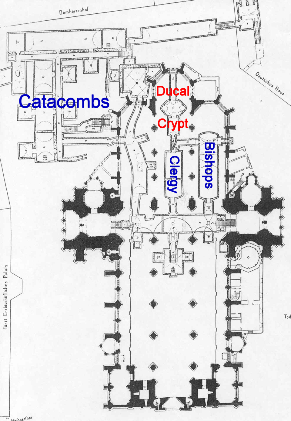 Locations of subterranean chambers of the Stephansdom in Vienna.